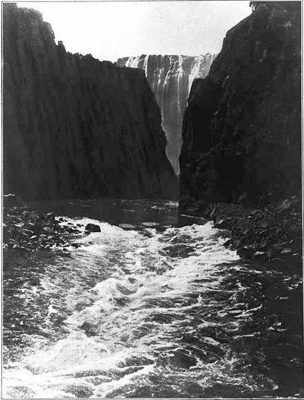 Original image caption reads: Von den Sambesifällen: “Die Schlucht des Boiling pot, von dem gefährlichsten Punkt aus gesehen [From the Zambezi Falls: The Boiling pot gorge, seen from the most dangerous spot].”